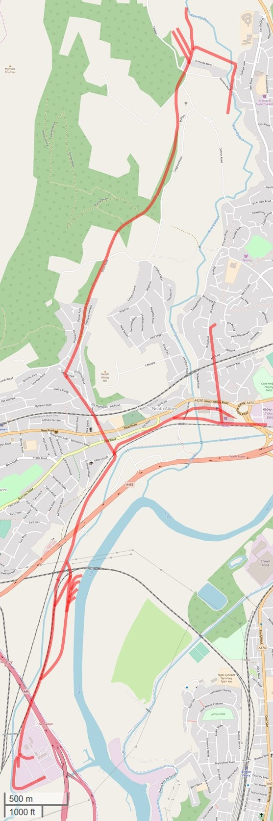 Skewen Dram Road superimposed onto OpenStreetMap map